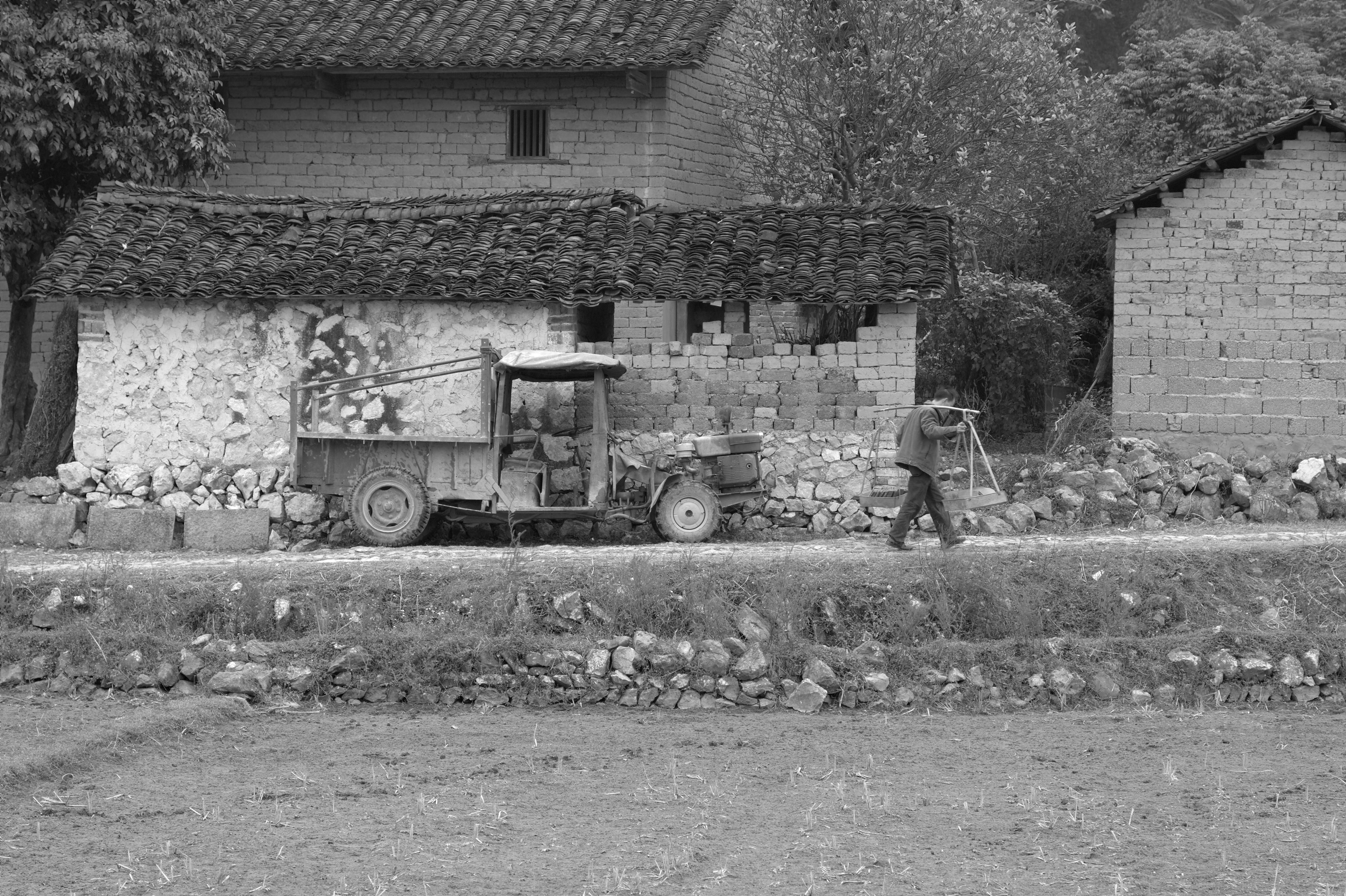 Typical farm in country side of Yangshuo, in the south of China. The truck (a two-wheel tractor with trailer, obviously) is as well quite typical of this area.